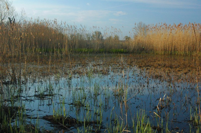 Wetlands alongside the Morava river (Gestütwiese), near Hohenau an der March, Lower Austria